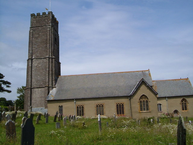 St Peter's Church, Stoke Fleming. Seen from the south edge of the churchyard, with a typically fine Devon tower that is a landmark from the sea.